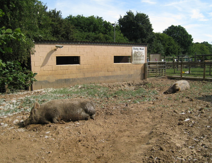 Tamworth Two (Butch and Sundance), Rare Breeds Centre, Woodchurch, Kent, England